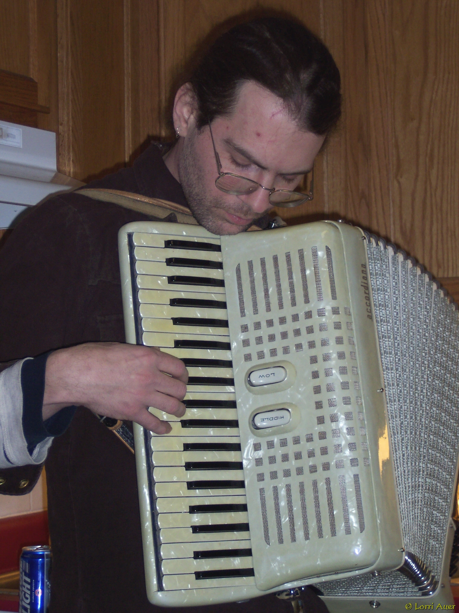 Dirk (Timepiece) Private Show Lorri`s kitchen Columbia, MO USA Jan. 24, 2005Dirk (Timepiece)